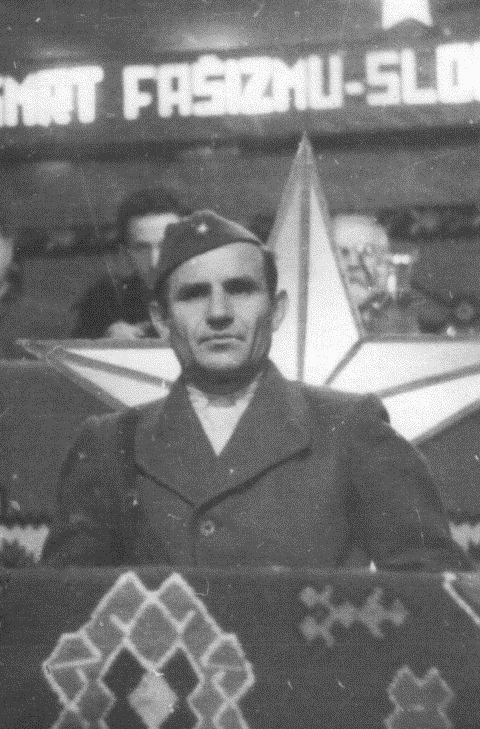 Đurađ "Đuro" Pucar "Stari" (13 December 1899 – 12 April 1979) Yugoslav and Bosnian politician. Đuro Pucar in Mrkonjič grad